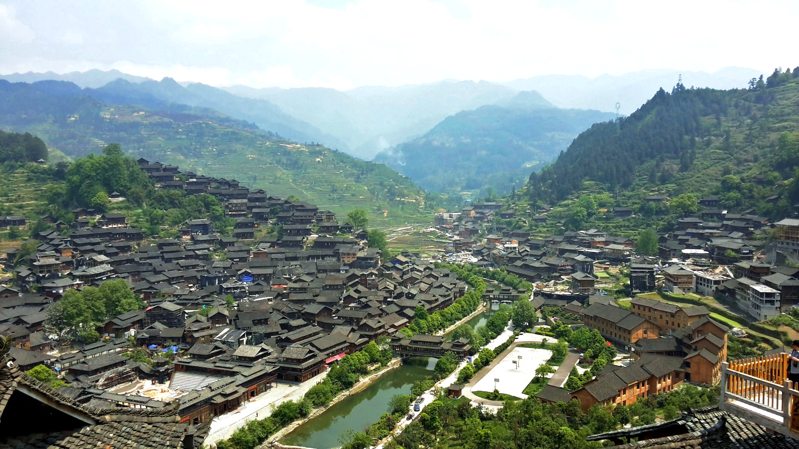 Xijiang thousand familly Miao village (西江千户苗寨) in Guizhou province, China.